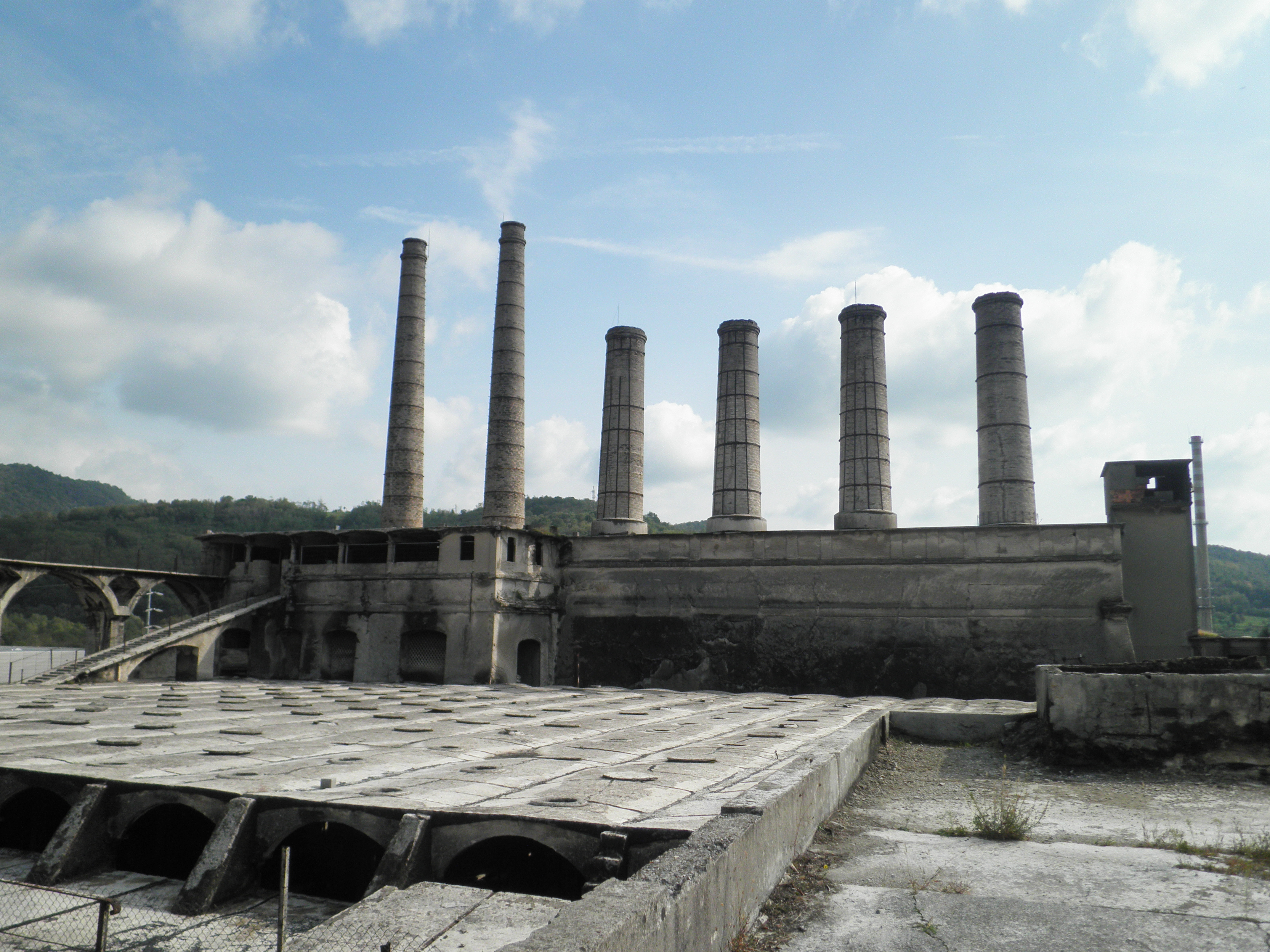 The ex Italcementi cement plant in Alzano Lombardo, seen from north